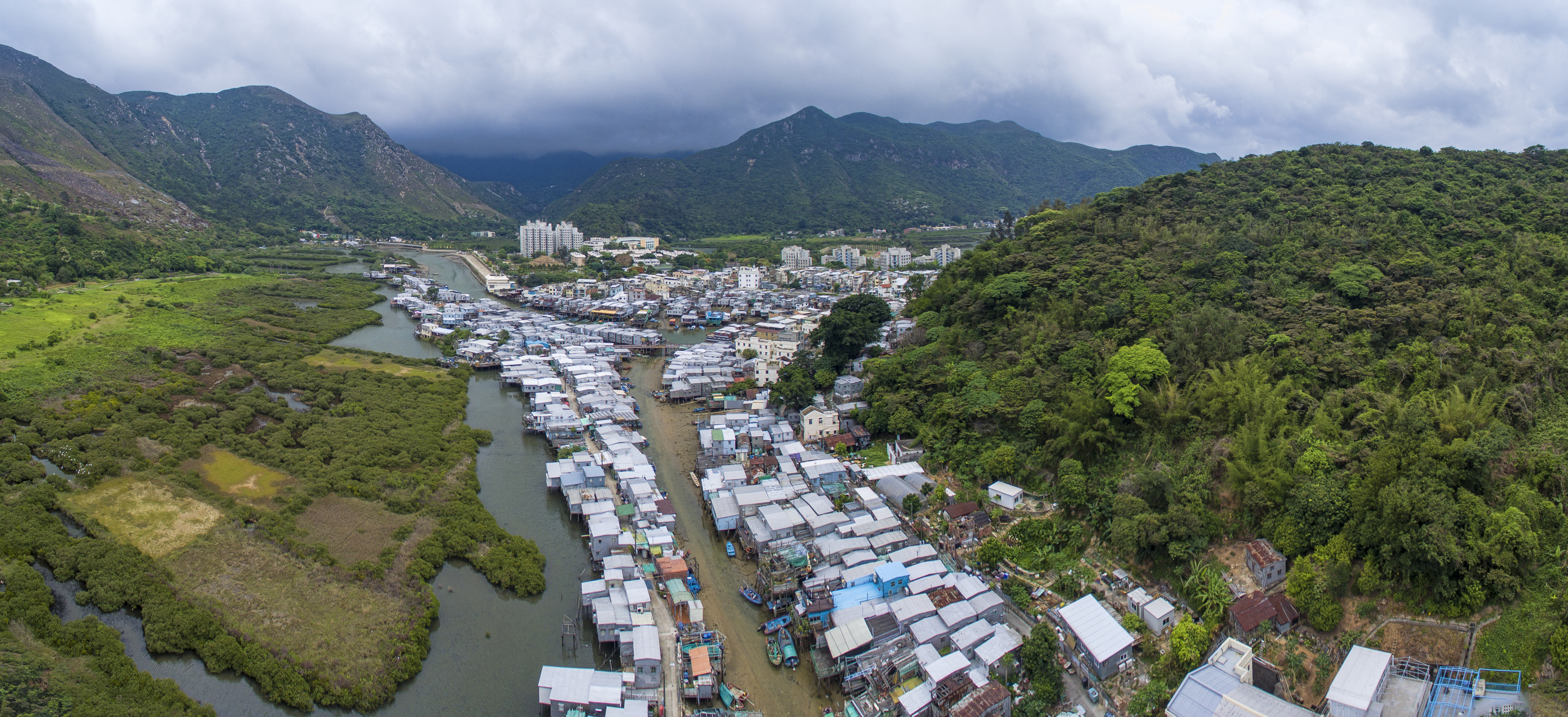 aerial pano tai o lantau hong kong 2015 phantom 3